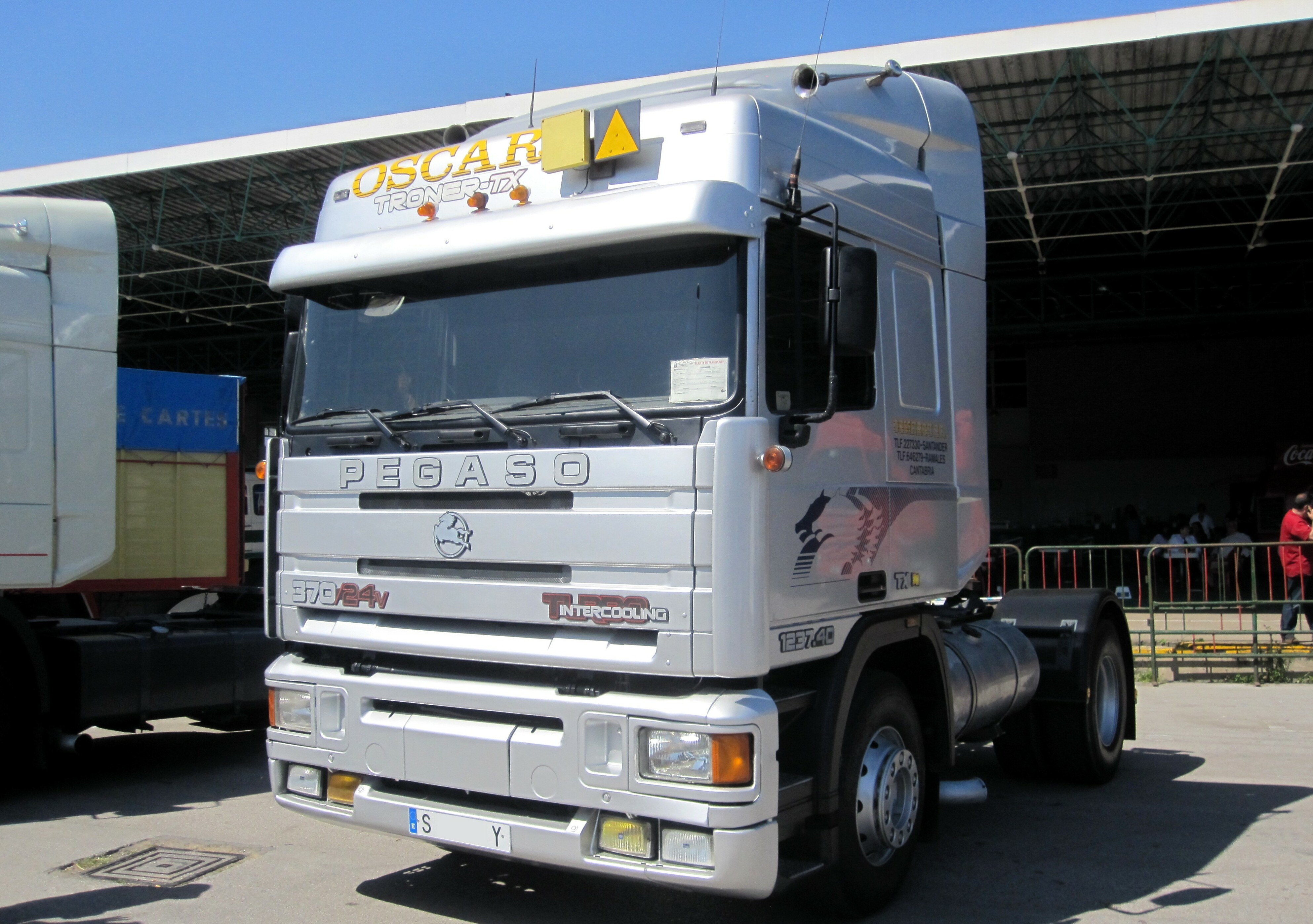 So nice... 1991 plates from Santander (Cantabria).